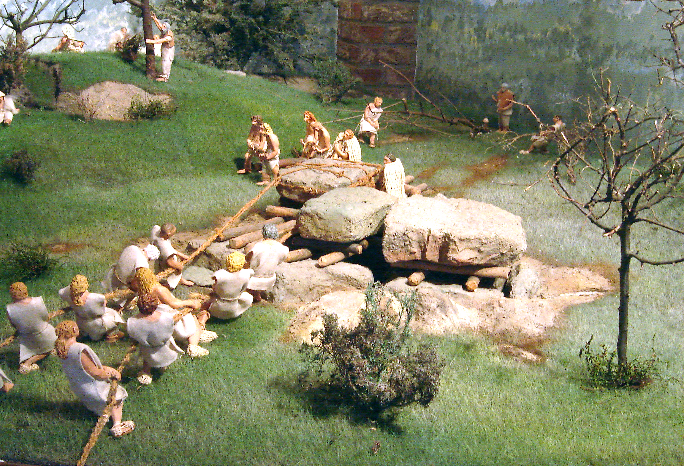 Model of the dolmen of Weris construction (Megaliths Museum, Weris).